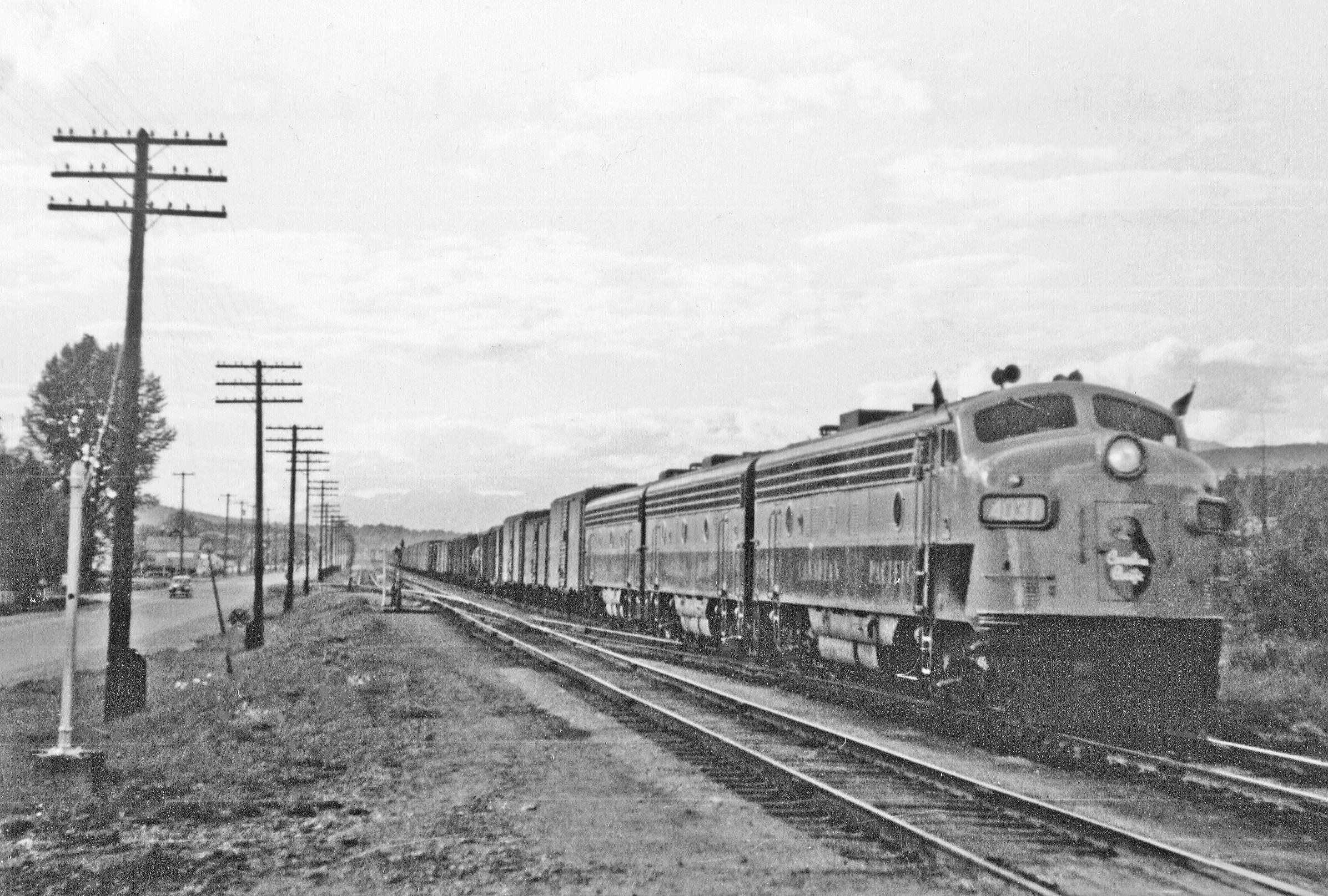 Eastbound CPR freight, with 3-unit Diesel, entering Golden, B.C.